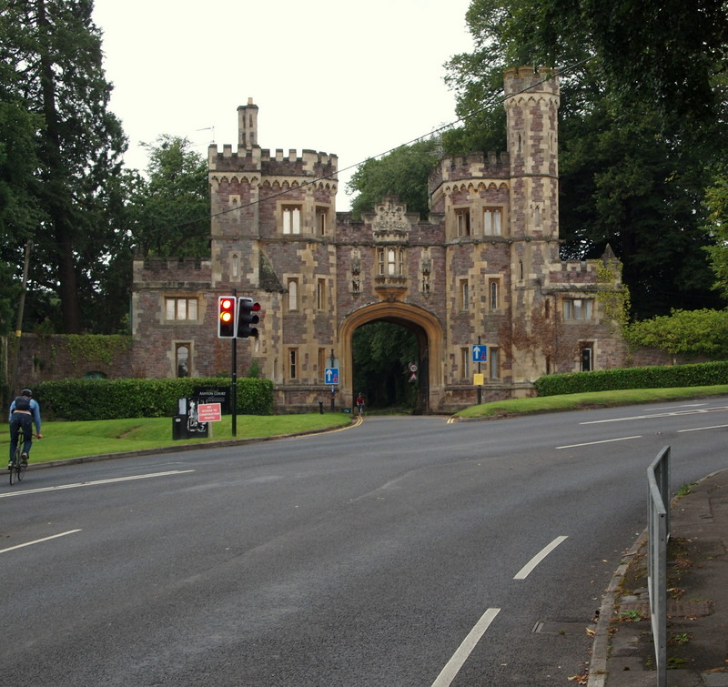 Leigh Woods - BS8 (N. Somerset)